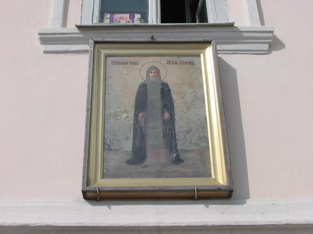 Saint Job of Pochayiv. Pochayiv monastery, Ternopil oblast, western Ukraine.